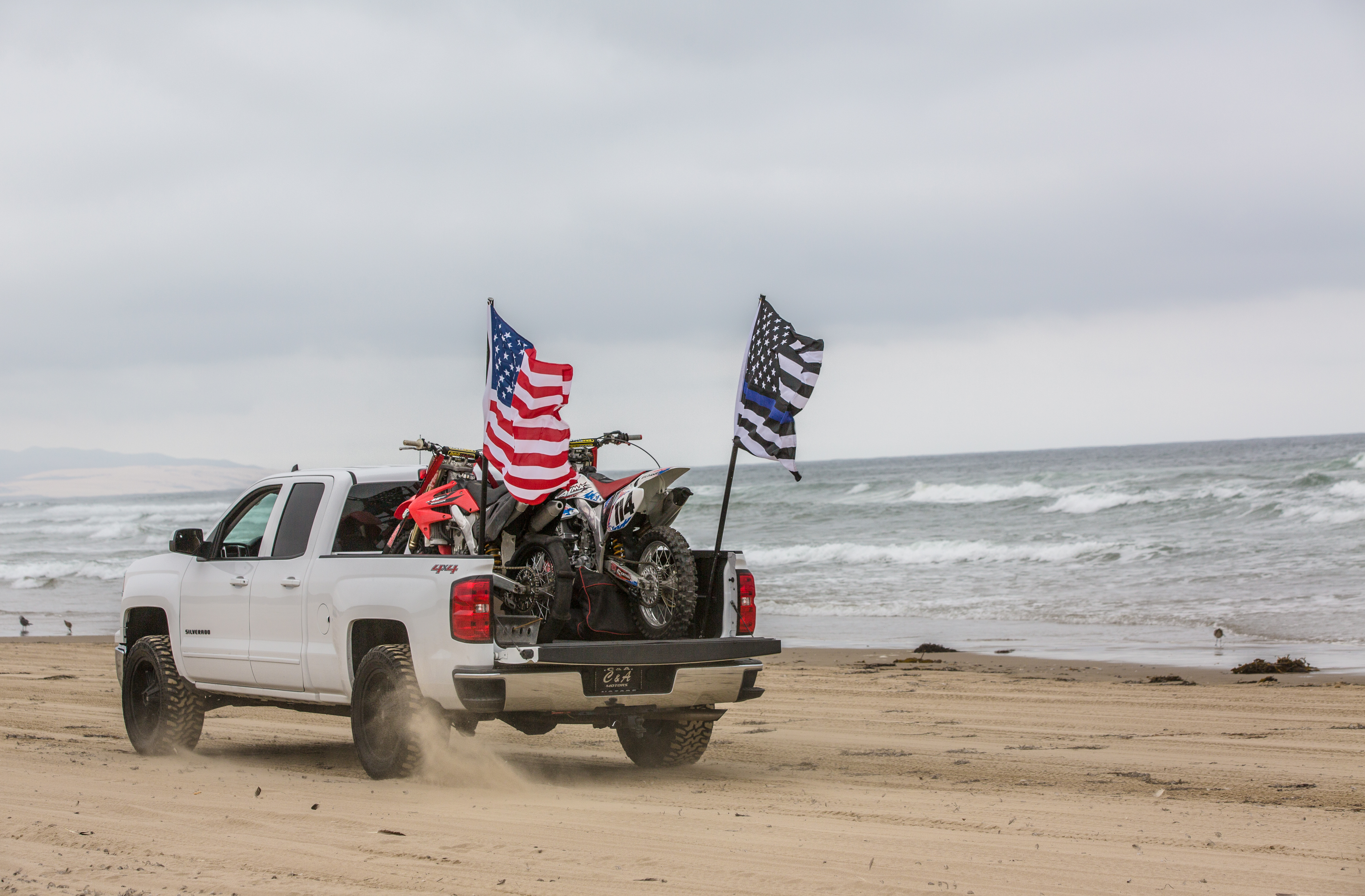 I'm not sure why, but there were several pick-up trucks with American flags and thin blue line or "Blue Lives Matter" flags driving along the beach in Oceano and throughout Pismo Beach, California. Seemed *way* out of place.